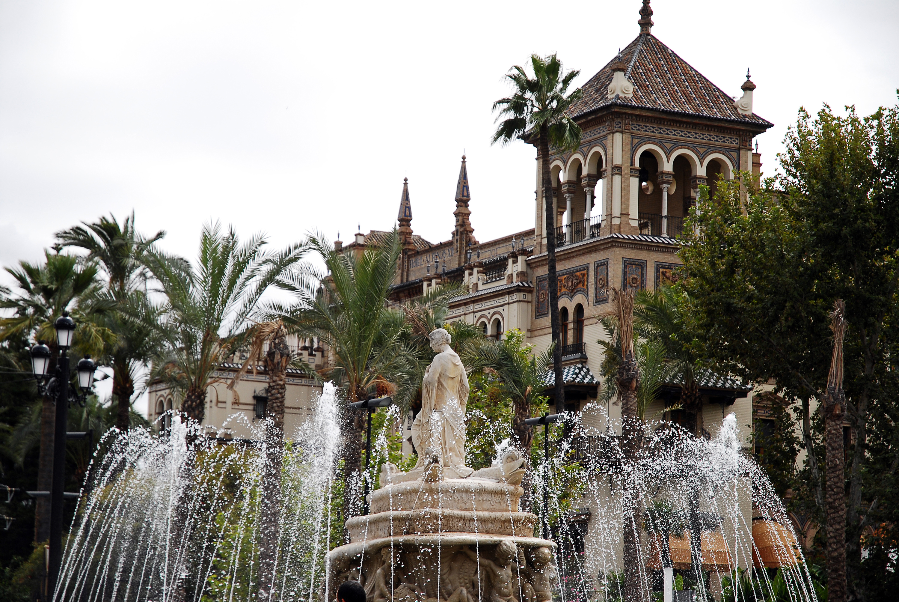 The Fuente de Sevilla fountain at the Puerta de Jerez square (a tower of Hotel Alfonso XIII building in the background). Seville, Andalusia, Spain, Southwestern Europe.